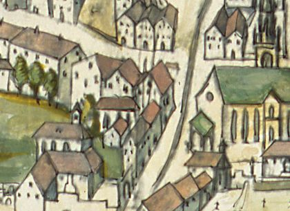 Detail from the historical view of Bozen-Bolzano, South Tyrol, with the former Hospital of the Holy Spirit, drawn by Ludwig Pfendter in the early 17th century (1607)